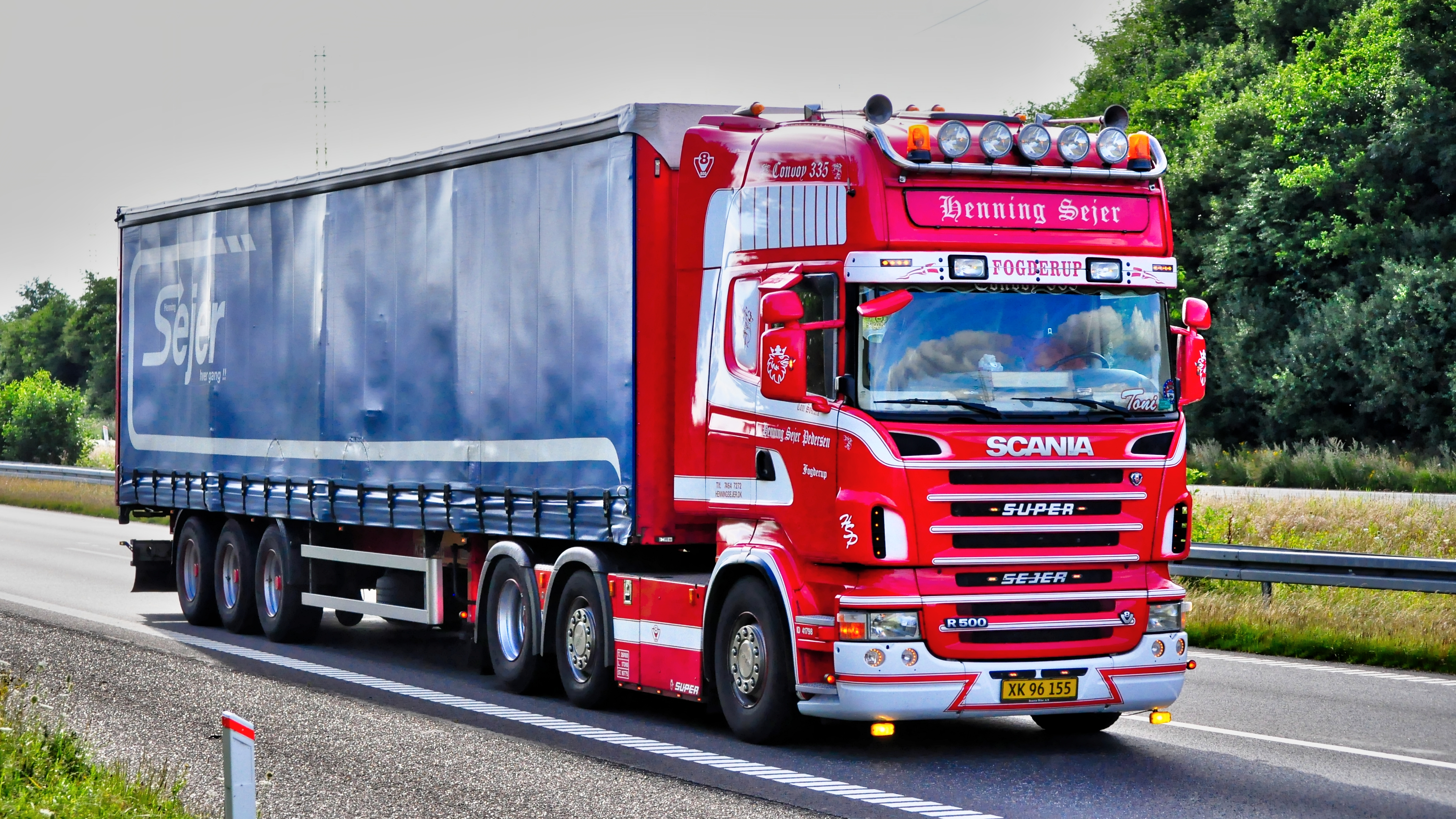 Model: Scania R 500 Topline Euro4 6X2/4 (R-Series 5) VIN: XLER6X20005213583 1. Registration: 2009-09-24 Company: Henning Sejer Pedersen, Fogderup, Bylderup-Bov (DK) Fleet No.: - Nickname: Convoy 335 License plates: XK95342 (sep. 2009-feb. 2017) Previous reg.: n/a Later reg.: n/a Retirement age: 7 y 5 mo Photo location: Motorway 501 (Aarhus Syd Motorvejen), Viby J, Aarhus, DK Going down the steep hill leading northeast into Aarhus. The motorway ends by Åhavevej in Viby. From here, the trucks can continue straight on to Marselis Boulevard across Skanderborgvej before ending at the port of Aarhus, 6 km from here. Tip: to locate trucks of particular interest to you, check my collections page, "truck collection" - here you will find all trucks organized in albums, by haulier (with zip-codes), year, brand and country. Retirement age for trucks: many used trucks are offered for sale on international markets. If sold to a foreign buyer, this will not be listed in the danish motor registry, so a "retired" truck may or may not have been exported. In other words, the "retirement age" only shows the age, at which the truck stopped running on danish license plates.